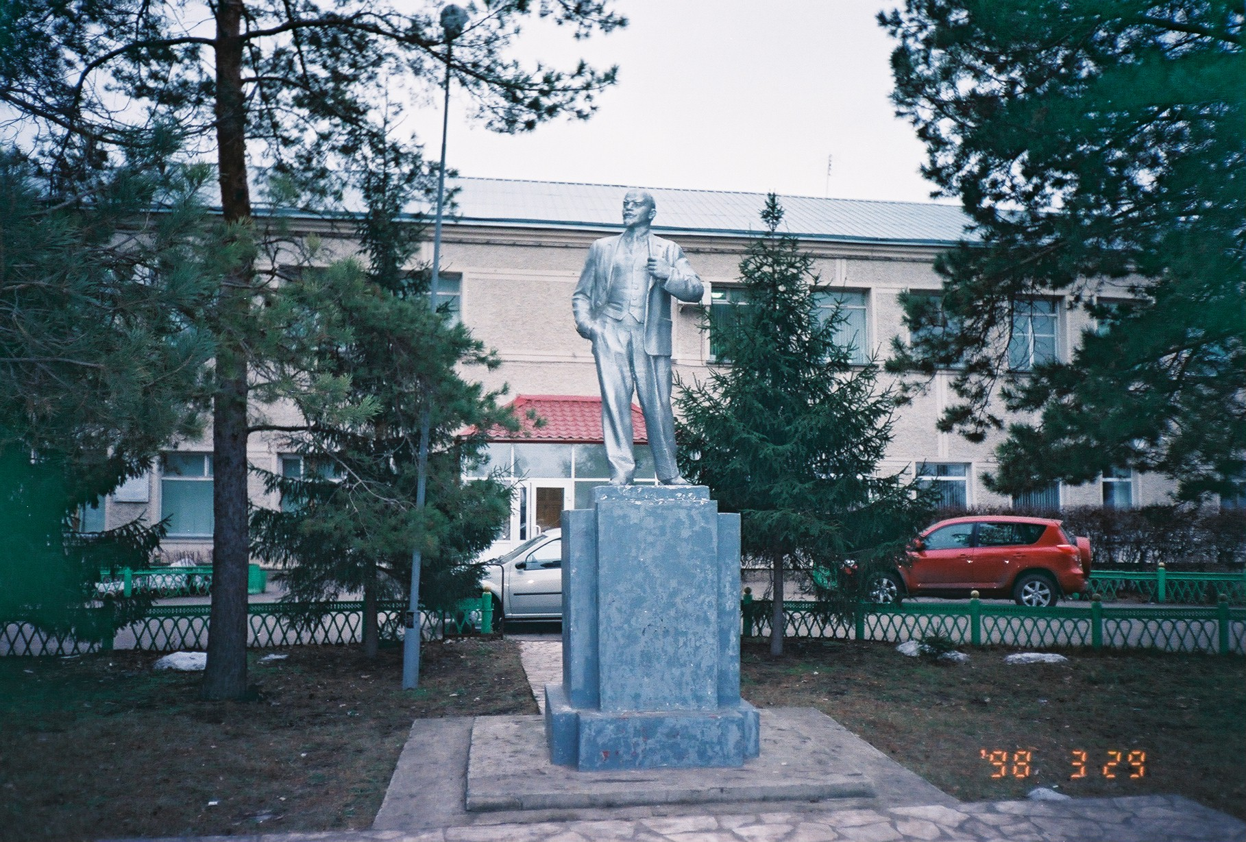 Ленин2 (Красный Яр, Астрахань)